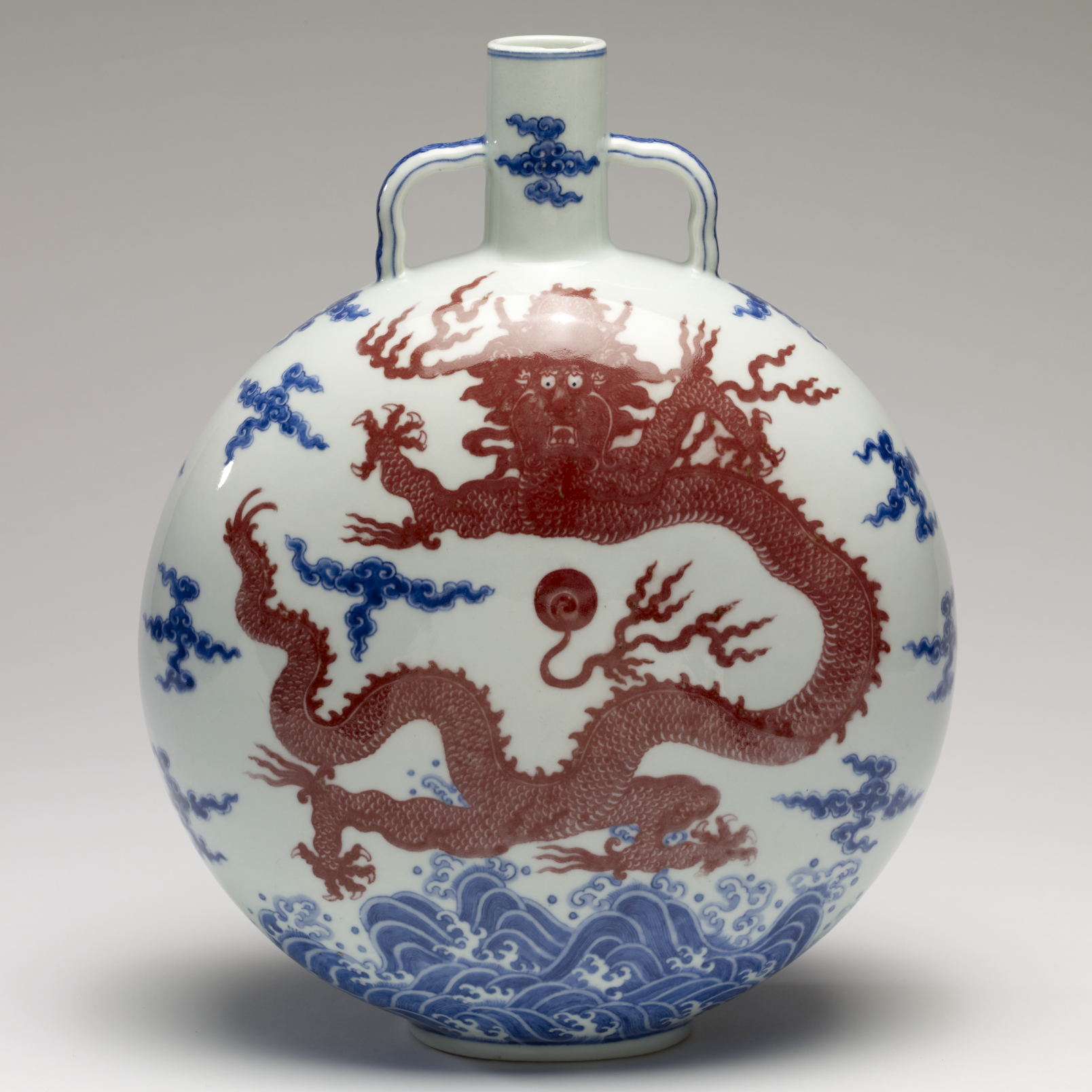 "This moonflask of white porcelain is painted with underglaze blue and red designs. A five-clawed red dragon is depicted on either side, facing forward with its body coiled to protect a flaming pearl at the center. Flames issue from the scaly serpentine body of the dragon. In blue are painted the foaming crested waves along the bottom and scrolling clouds scattered across the sky. The flask is round in form, thus giving it the name full moon flask. Two thin handles are attached at the shoulders and rise to meet the straight narrow neck. The careful control of the cobalt (blue) and iron (red) pigments mark this vase as something rare and special. It was made at the imperial kilns in the city of Jingdezhen for the court in Beijing where it would have served as decoration for one of the many palace rooms in the Forbidden City. The Qianlong emperor who reigned from 1736 to 1796 was a great patron of the arts, commissioning and supporting production of vast numbers of exquisite works of art. This piece is marked as having been made during his reign and it is undoubtedly among the finest porcelains to emerge from the Chinese kilns."